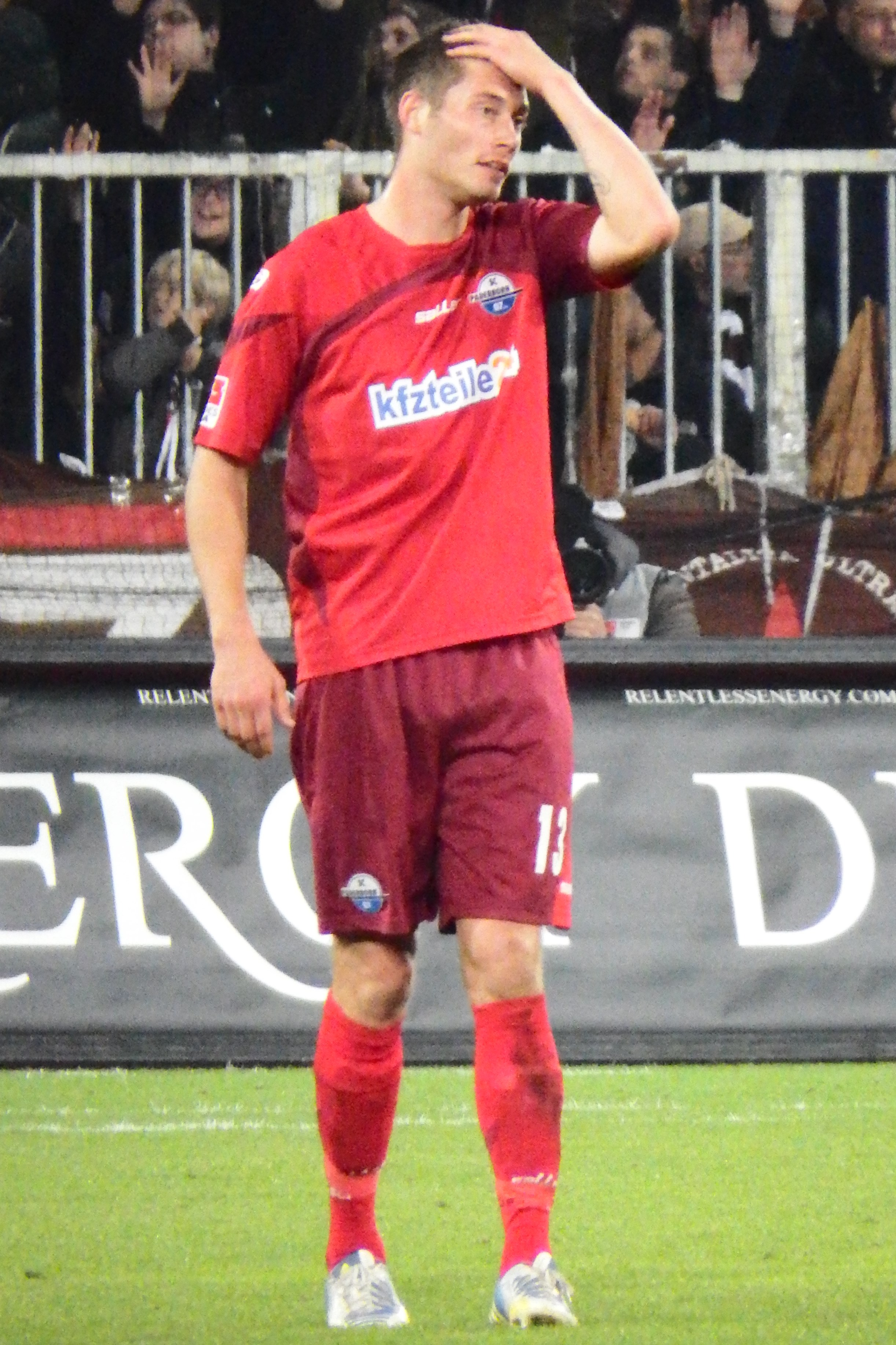 Christian Strohdiek as Player of SC Paderborn